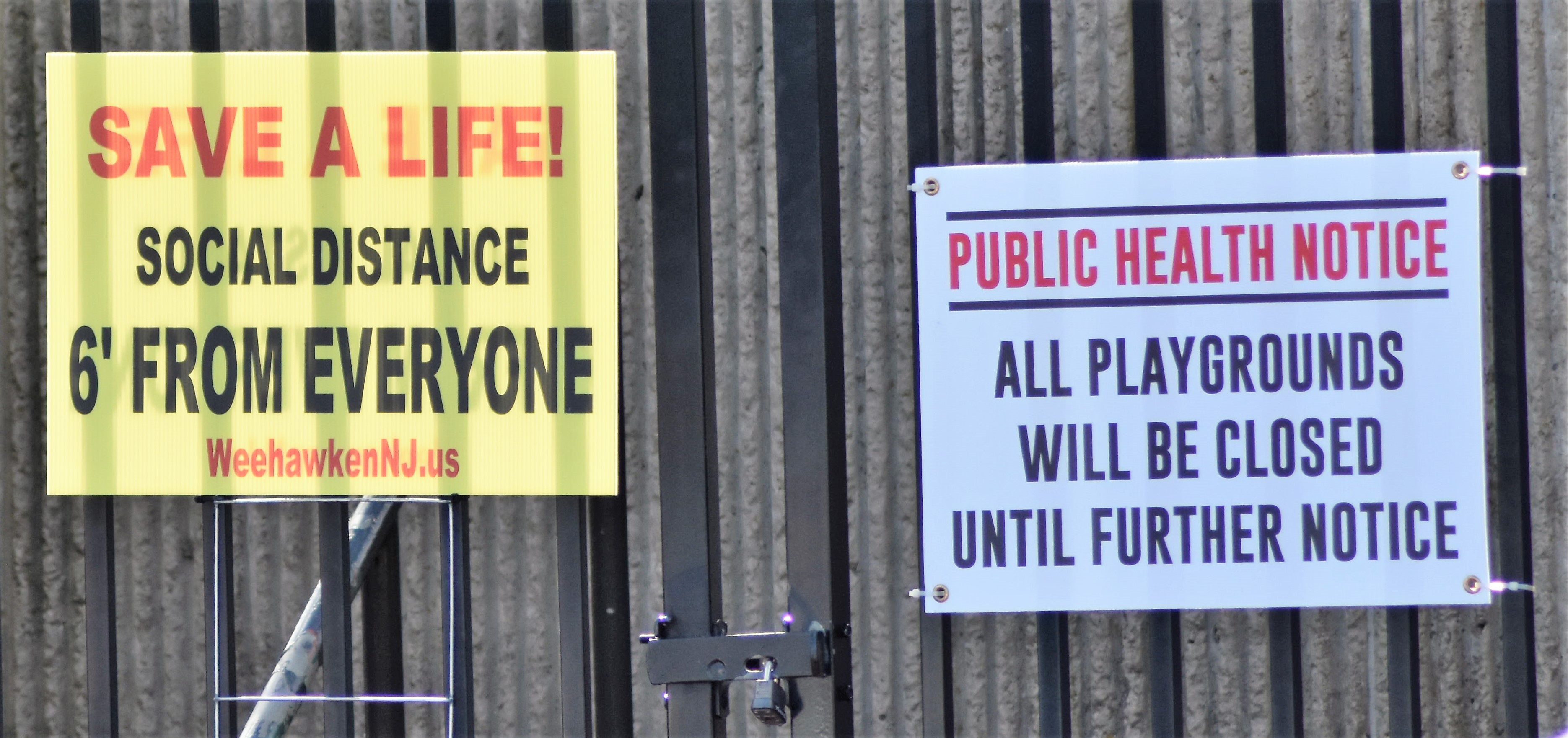 Playground signs for pandemic in Weehawken, NJ during the COVID-19 pandemic. 1 April 2020.